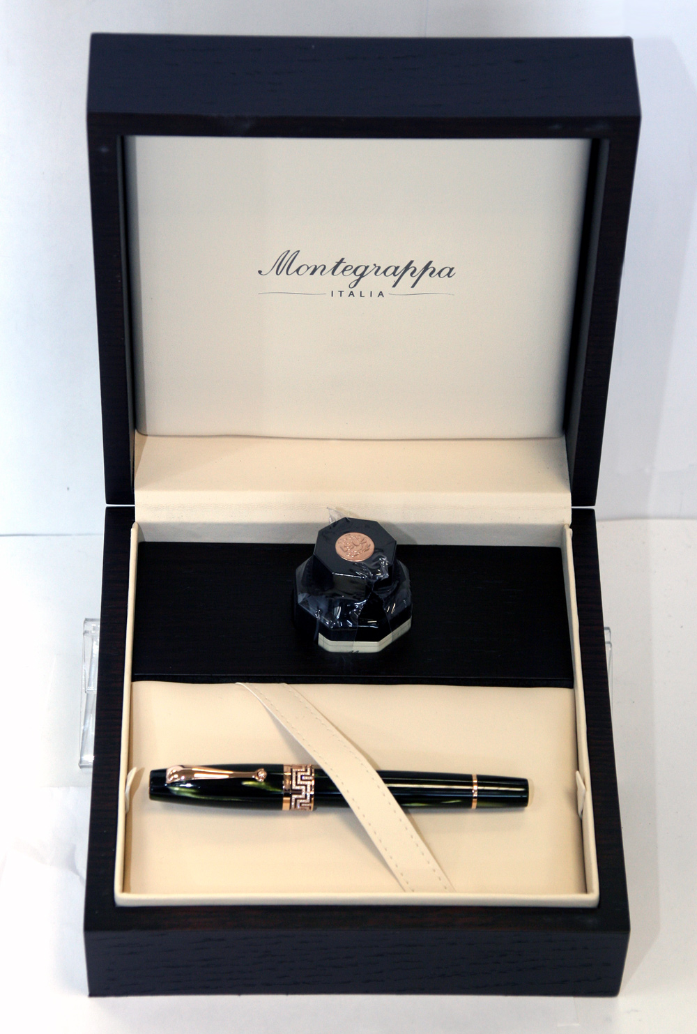 Montegrappa Extra pen